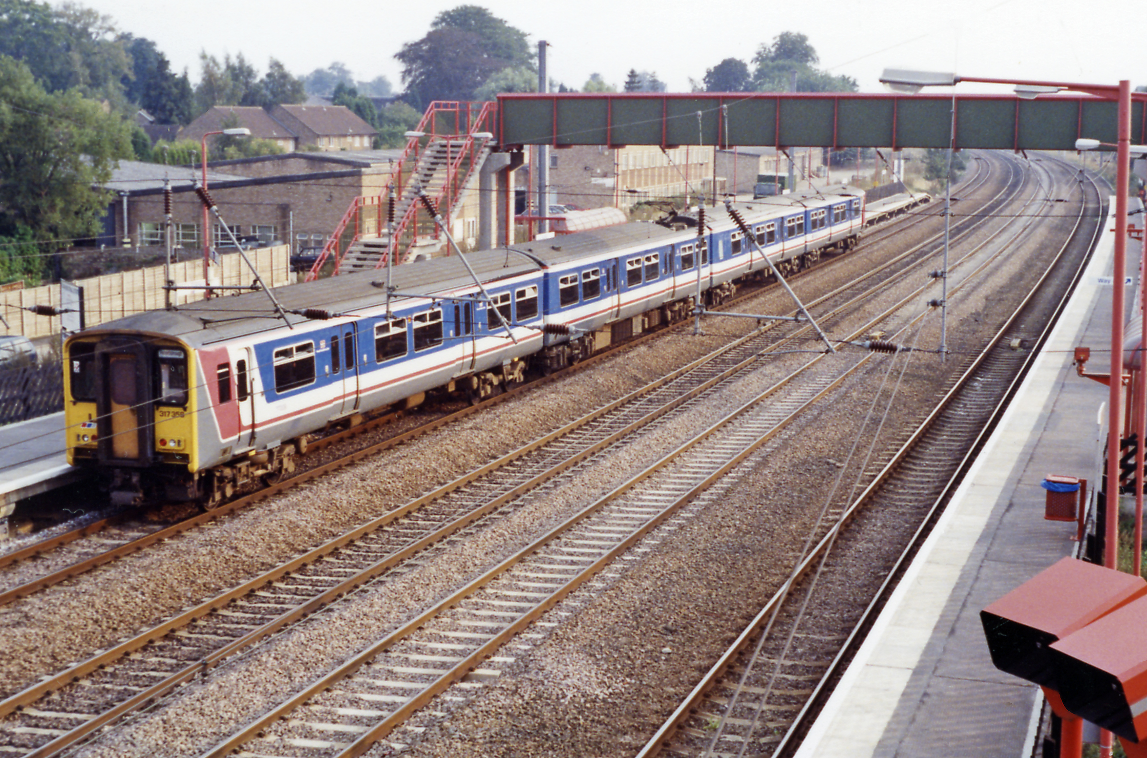 Arlesey (new) station, with Up train, 1991. View SE, towards London: ex-GNR ECML. The original station (Arlesey & Henlow from 1/3/33) was closed to passengers on 5/1/59 (to goods on 28/11/60), but was reopened on the same site on 3/10/88, with four tracks provided to replace the former two-track bottleneck. Here, long after electrication, a Class 317 is calling on an Up local.